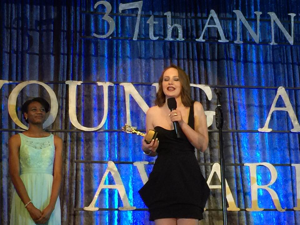 Accepting the award for Best Actress for her work in "A Horse For Summer" at the 37th Annual Young Artist Awards. Photo credit: Sherri Carlson 2016. Studio City, Los Angeles, CA.